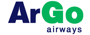 The logo of ArGo Airways Seaplanes